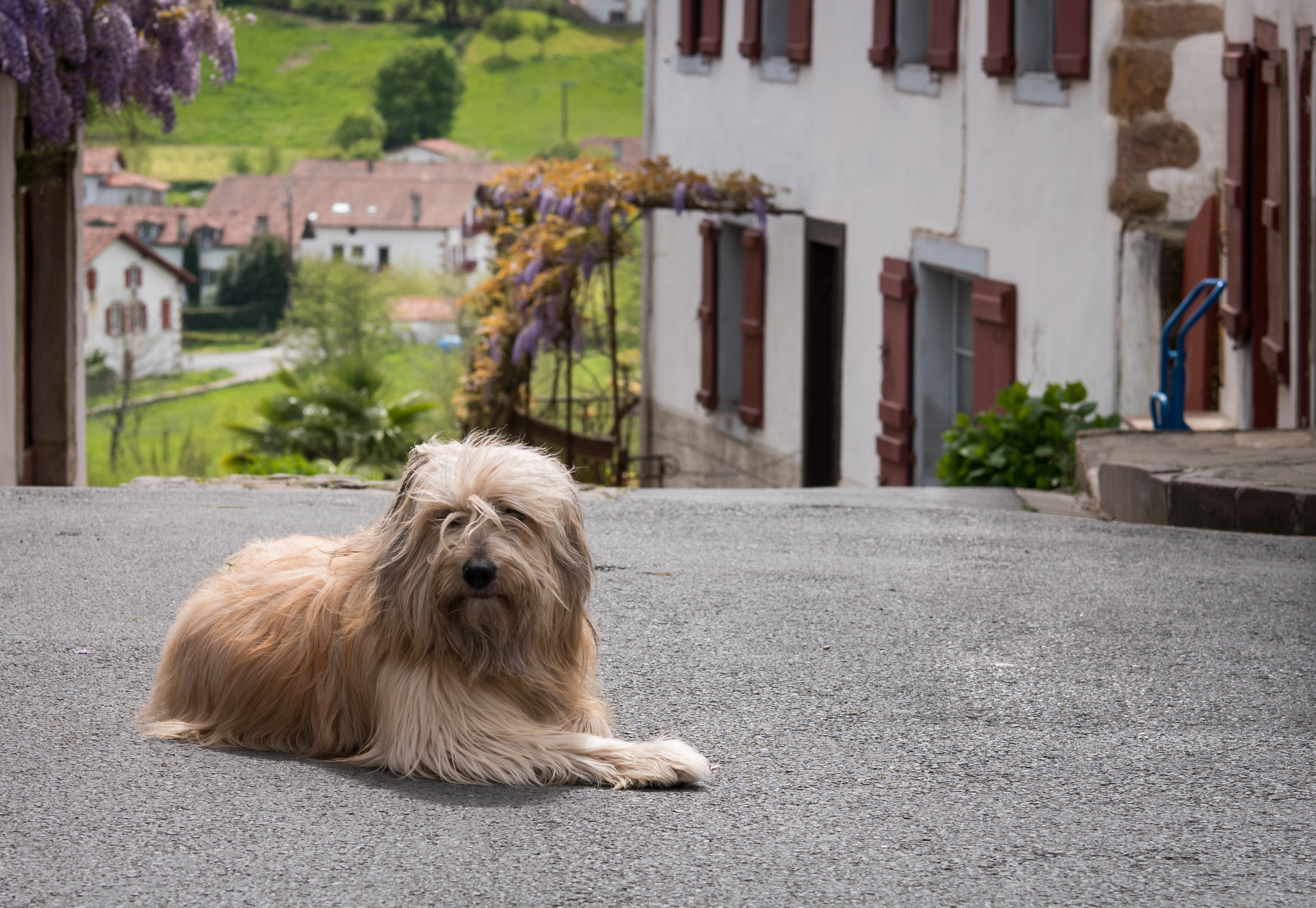 Catalan sheep dog in Sara, Basque Country, France